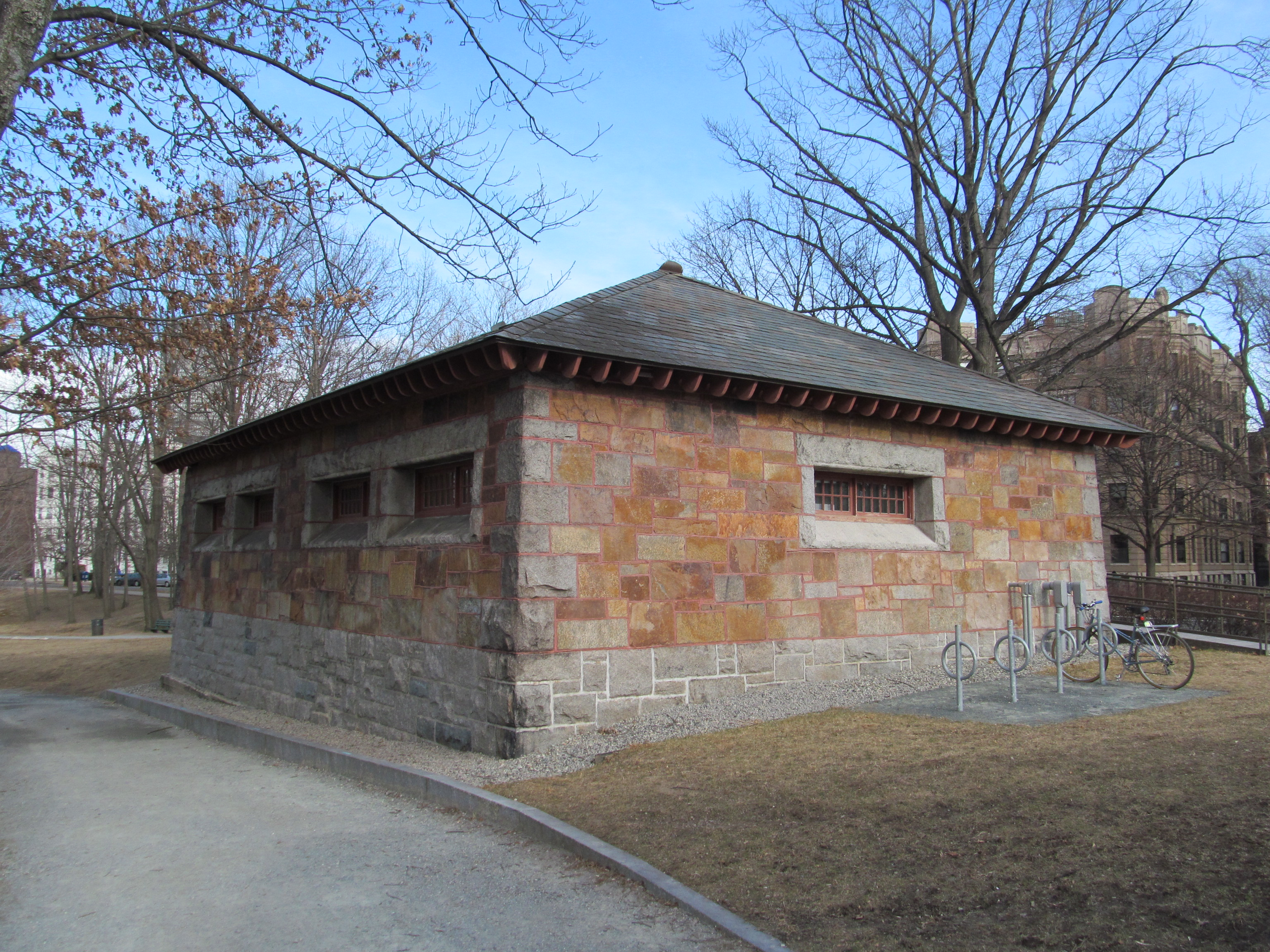 Stony Brook Gatehouse, Boston Massachusetts